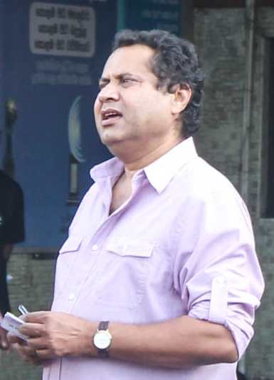 Photograph of Jayantha Ketagoda.